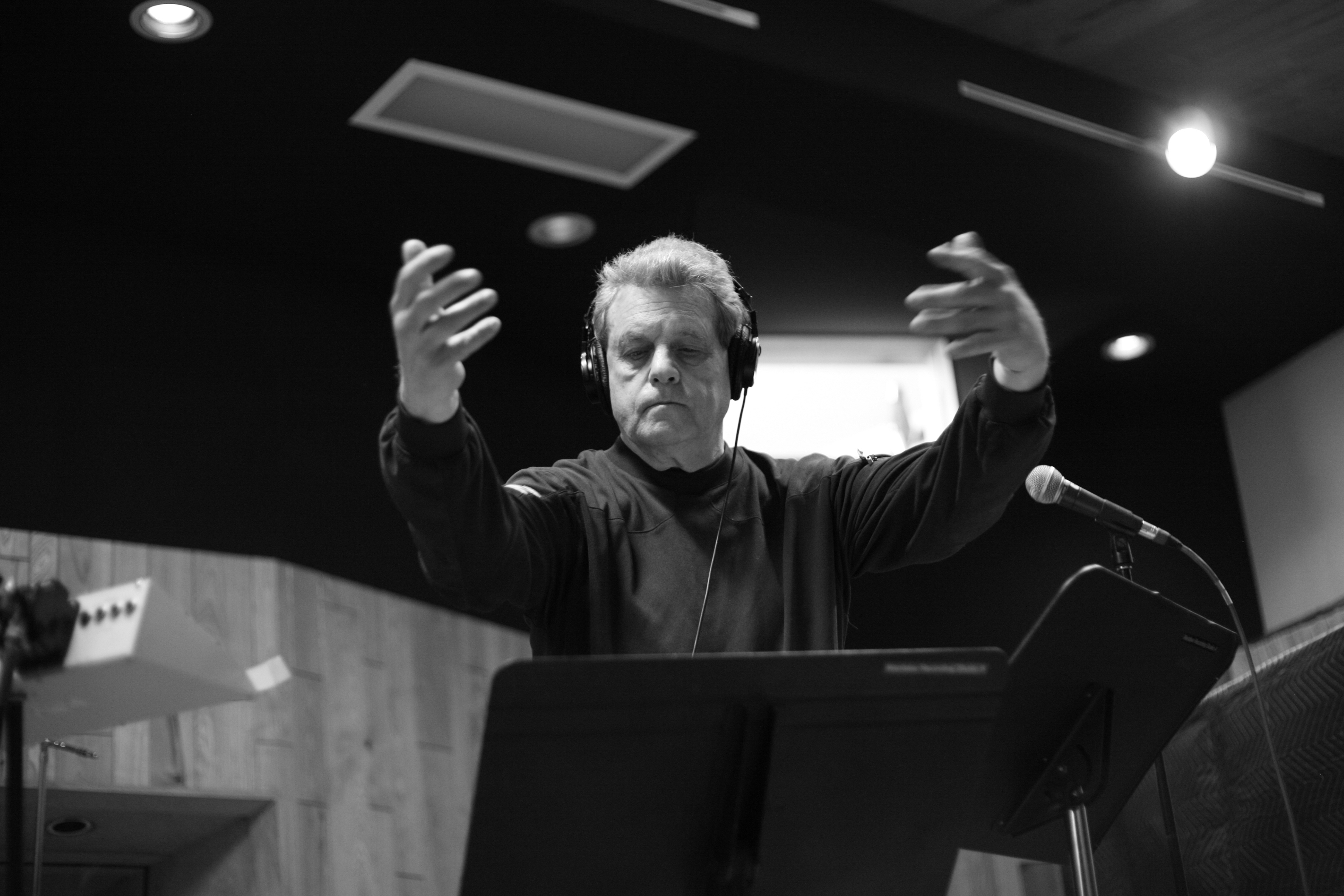 Buddy Bregman conducts his very last album sessions in Studio D at Westlake Recording Studios: 7265 Santa Monica Blvd, West Hollywood, CA 90046 (May 2006)